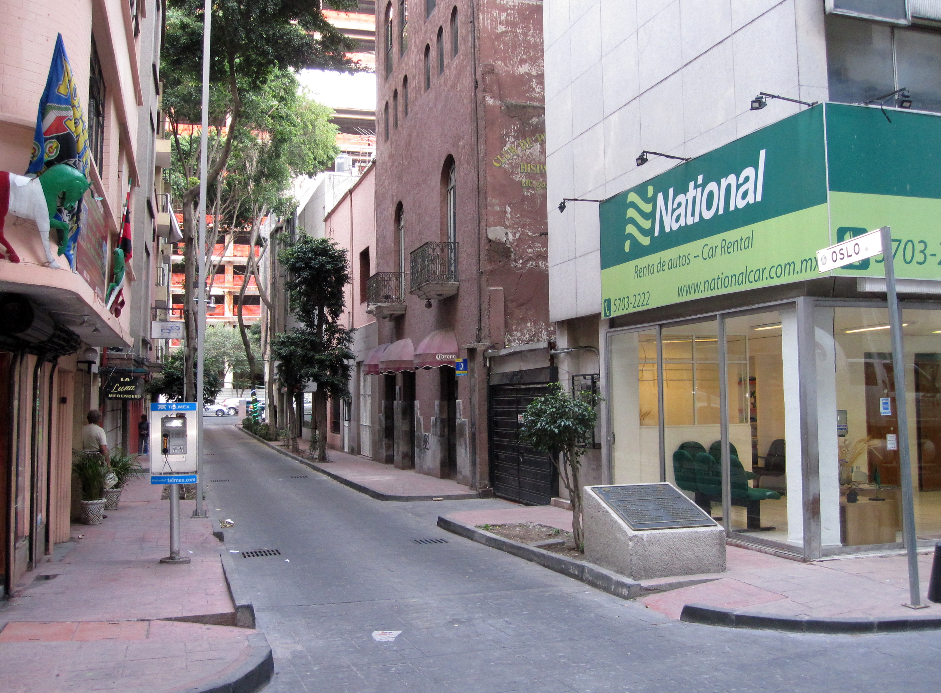 Calle Oslo in Mexico City